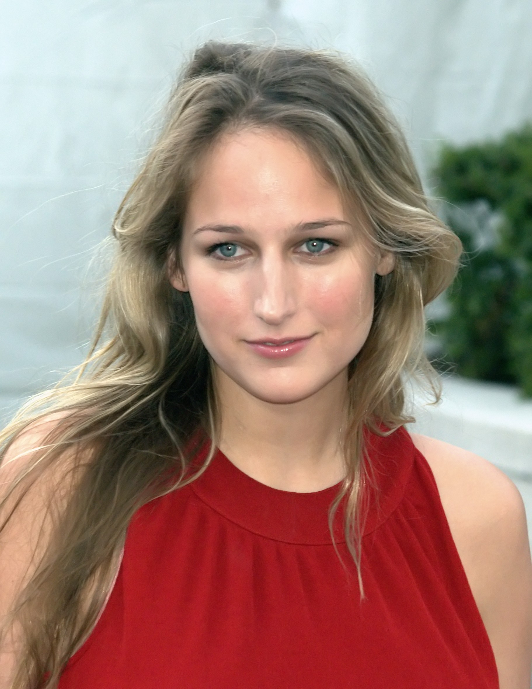 Leelee Sobieski at the 2009 premiere of the Metropolitan Opera in New York City. Photographer's blog post about event and photograph.